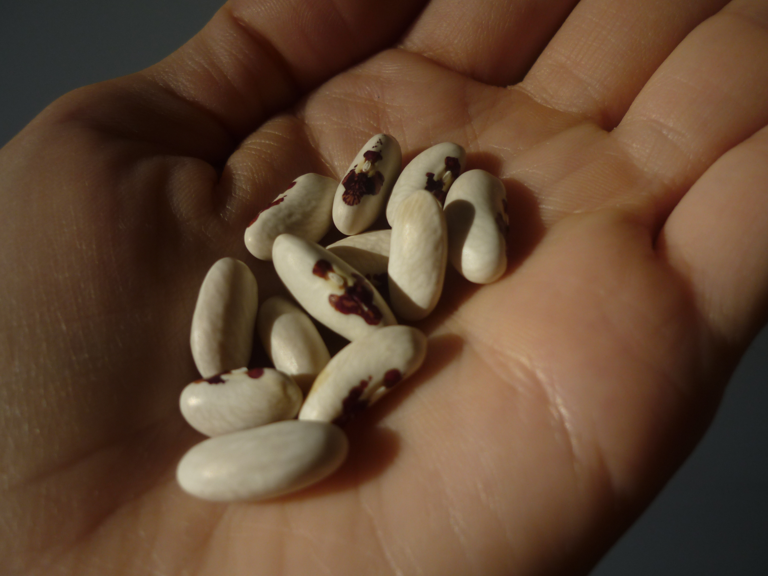 This picture shows seeds of Polish Eagle Bean grown in Lower Silesia region of Poland in 2019. This is special Polish bean variety, which was cultivated in XIX century in lands of former Commonwealth as an act of patriotism. Seeds have red mark on its belly side that looks like an eagle - Polish emblem. It's also called independence bean.